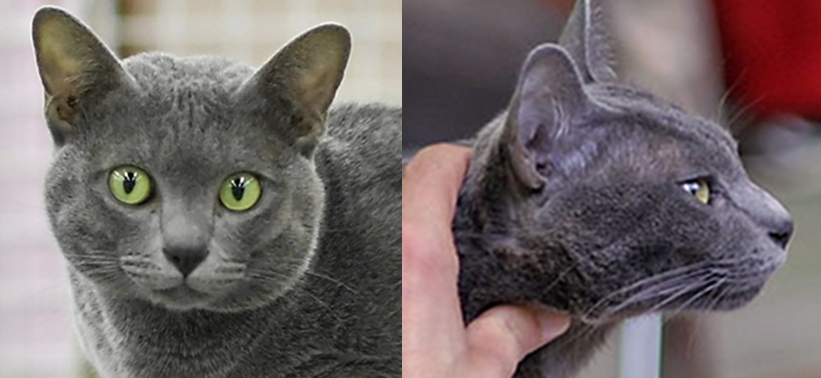 Korat Yog-Hurt's Atlach-Nacha at Turok Cat Show